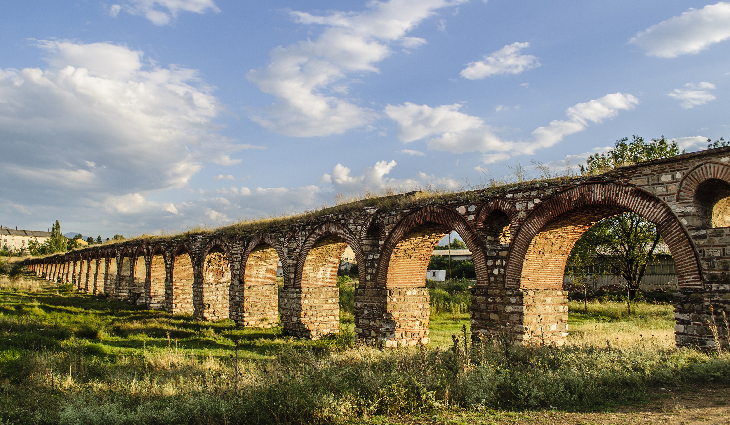 Skopje Aqueduct near the village of Vizbegovo, Macedonia